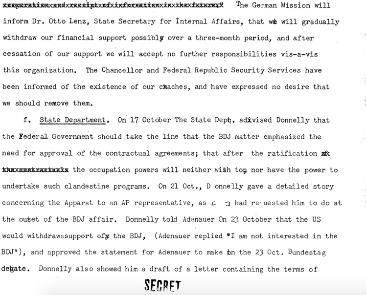 Draft Memorandum for Deputy Director on Bund Deutscher Jugend, as US-supported paramilitary group (excerpt)